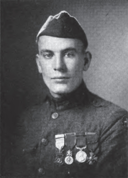 Corporal Thomas A. Pope, United States Army, received the Medal of Honor for his actions in World War I. The medals he is wearing are, from left to right, the Army Medal of Honor, the Médaille militaire, the Distinguished Conduct Medal, and the Croix de guerre.